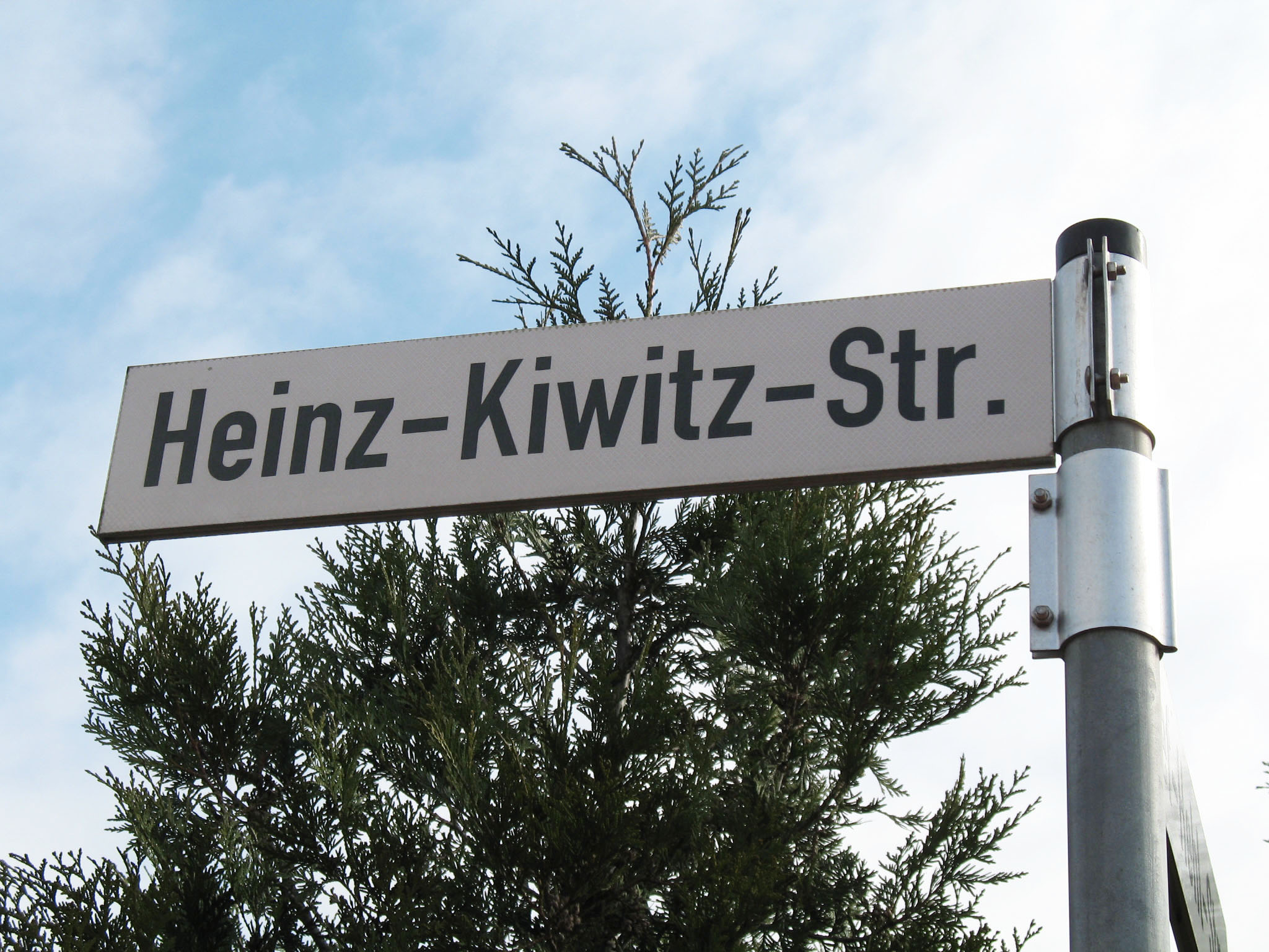 Street sign: Heinz-Kiwitz-Straße, Duisburg, Germany. Named for artist Heinz Kiwitz, a member of the German Resistance against Nazism. Kiwitz was a prisoner at Kemna concentration camp, was released and later went to fight in the Spanish Civil War, where he was apparently killed in 1938.